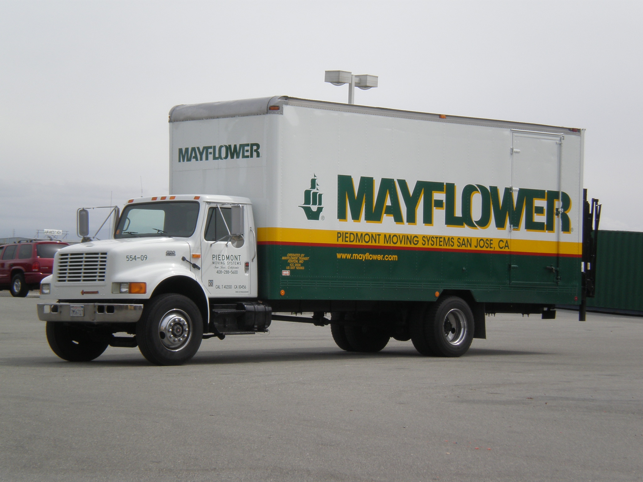 A moving truck operated by Piedmont Moving Systems, an agent for Mayflower Transit based in San Jose, California.